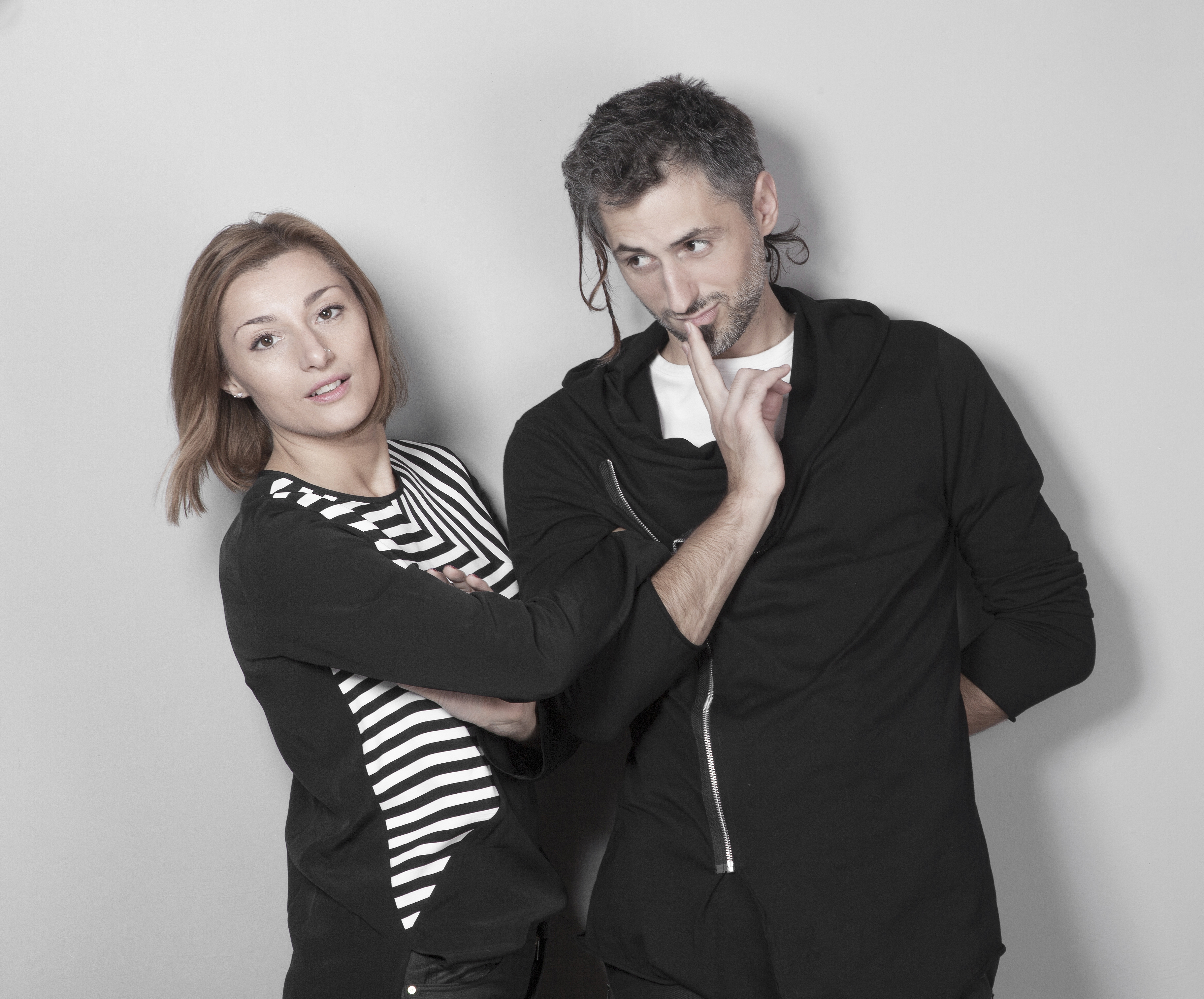 CTRLZAK studio founders Katia Meneghini Thanos Zakopoulos